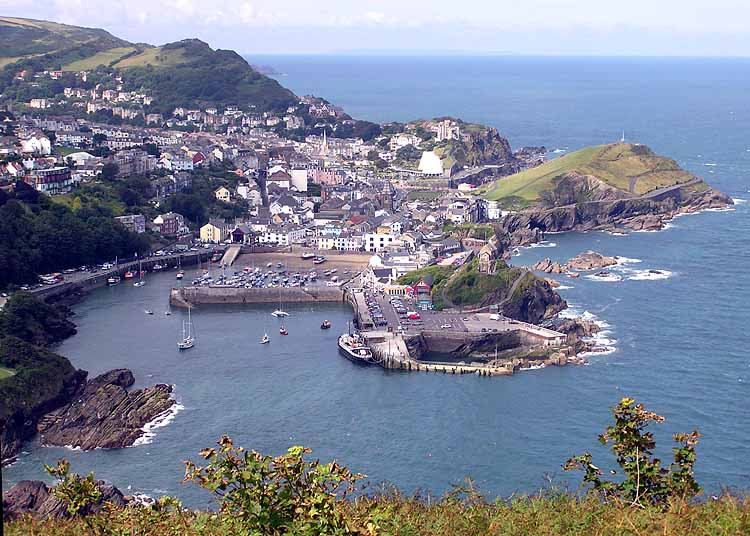 Ilfracombe seen from Hillsborough (447 feet, 136 metres). The viewpoint is on the South West Coastal Path. The Lundy ferry is the large moored boat, towards the bottom of the picture. Taken by Adrian Pingstone in July 2004 and released to the public domain.